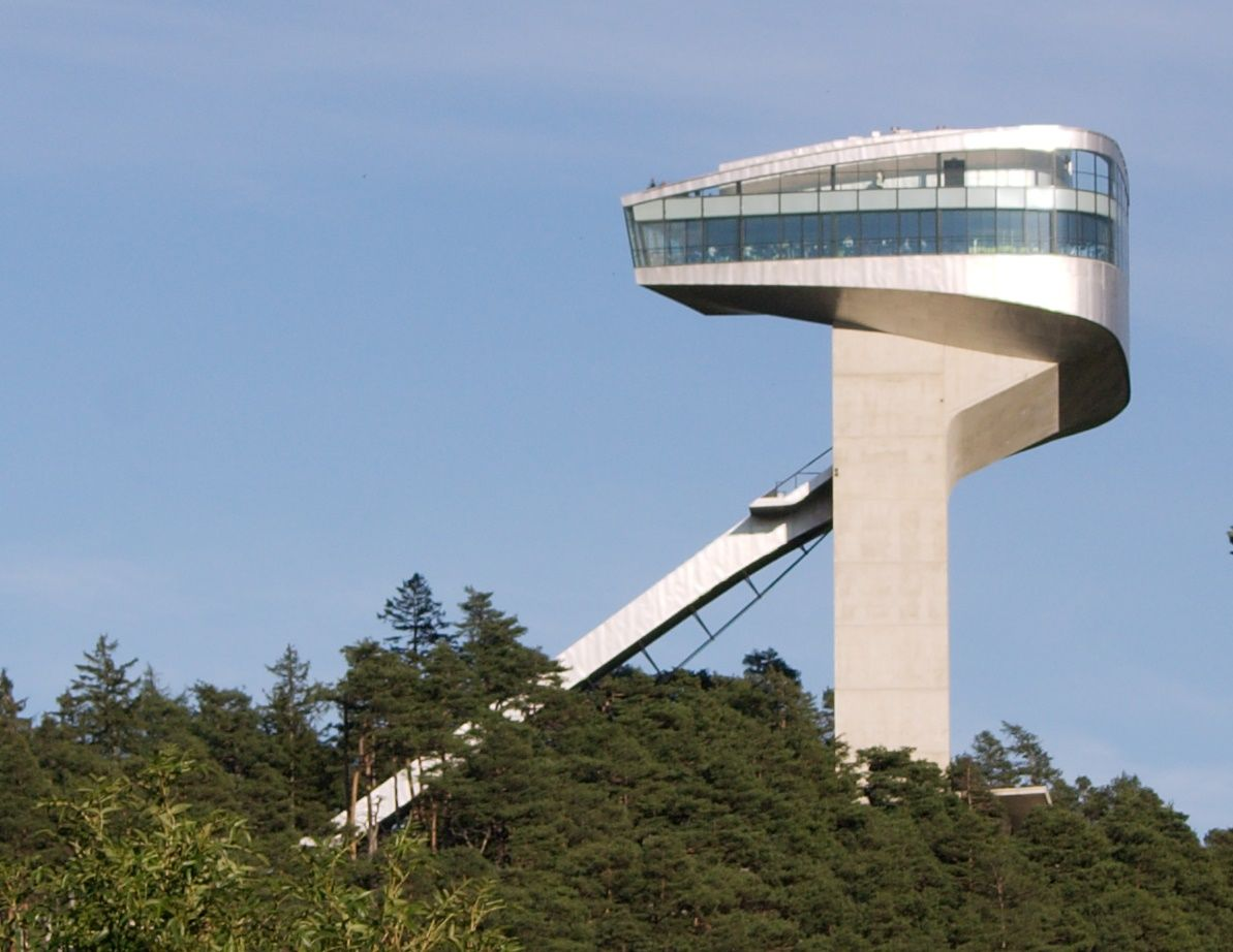 Top of the Bergisel Ski Jump tower, Tirol, Austria